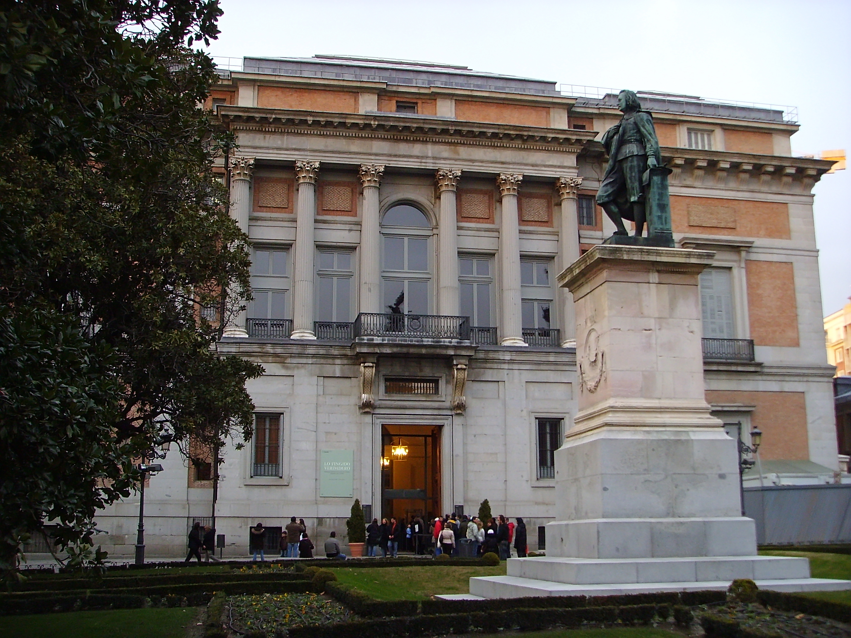 Prado Museum, in Madrid, Spain. Gate of Murillo. Architect: Juande Villanueva. Style: Neoclassicism